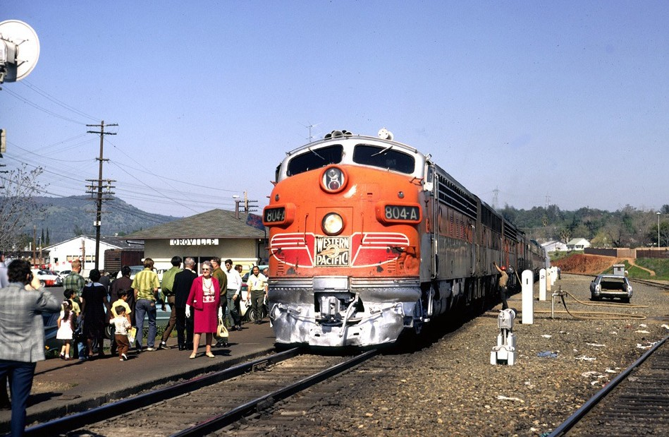 Last Westbound CZ at Oroville March 22, 1970